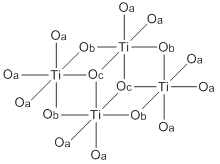 A partial structure of titanium(IV) ethoxide.